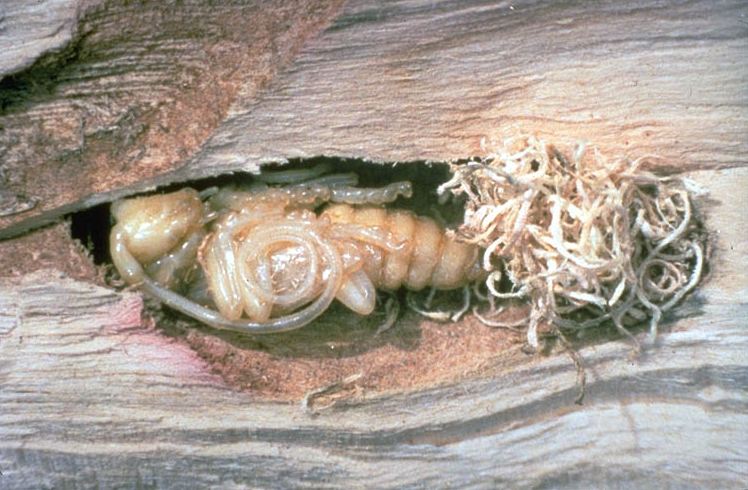 Asian Longhorned Beetle pupa inside log with frass from feeding as larva.